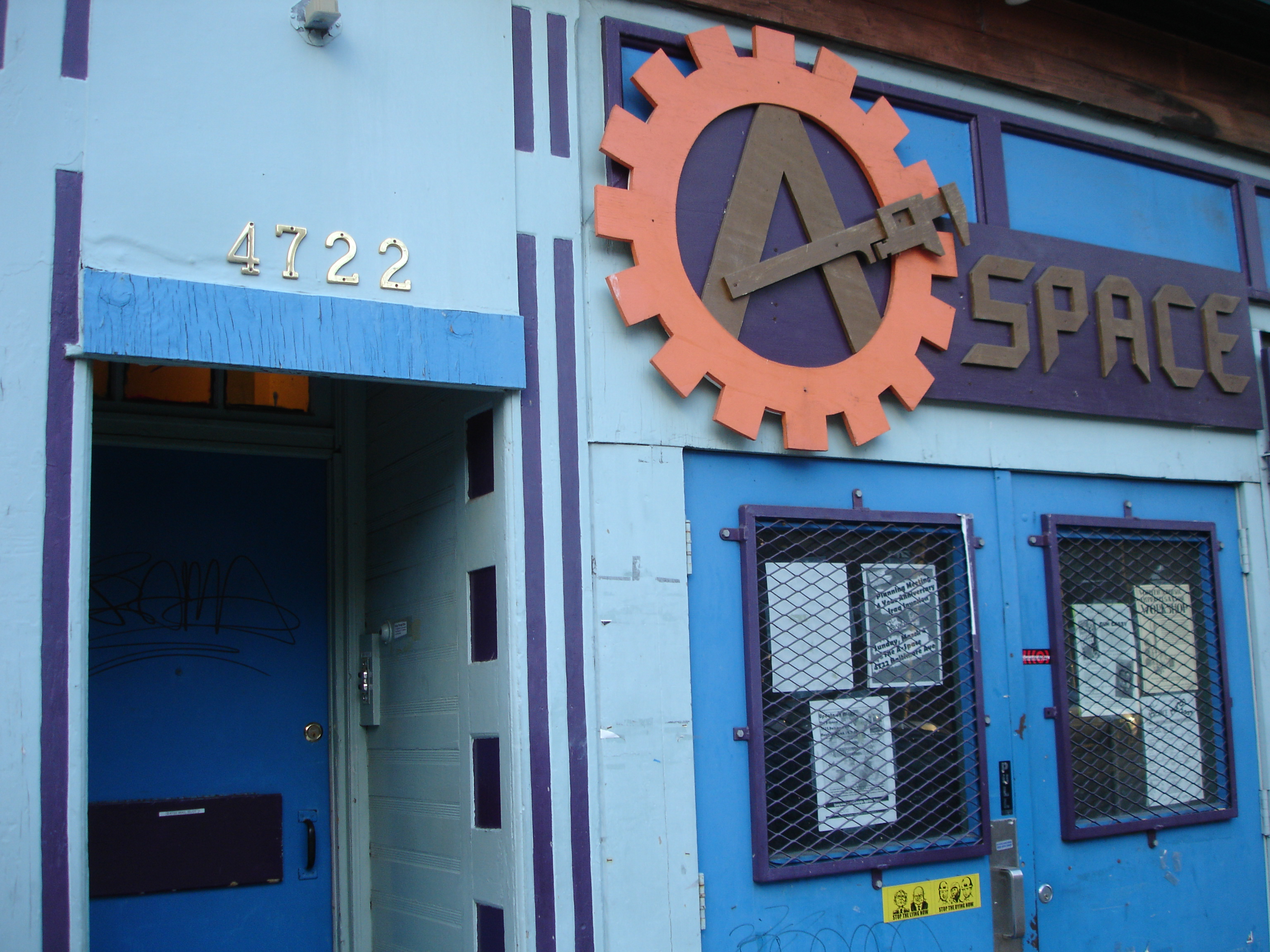 Photograph of the A-Space front on Baltimore Ave, Philadelphia PA.